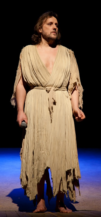 Actor Vladimir Dyadenistov as Jesus Christ at Rock-Opera «Jesus Christ — Superstar» (Rock-Opera Theatre, St. Petersburg)